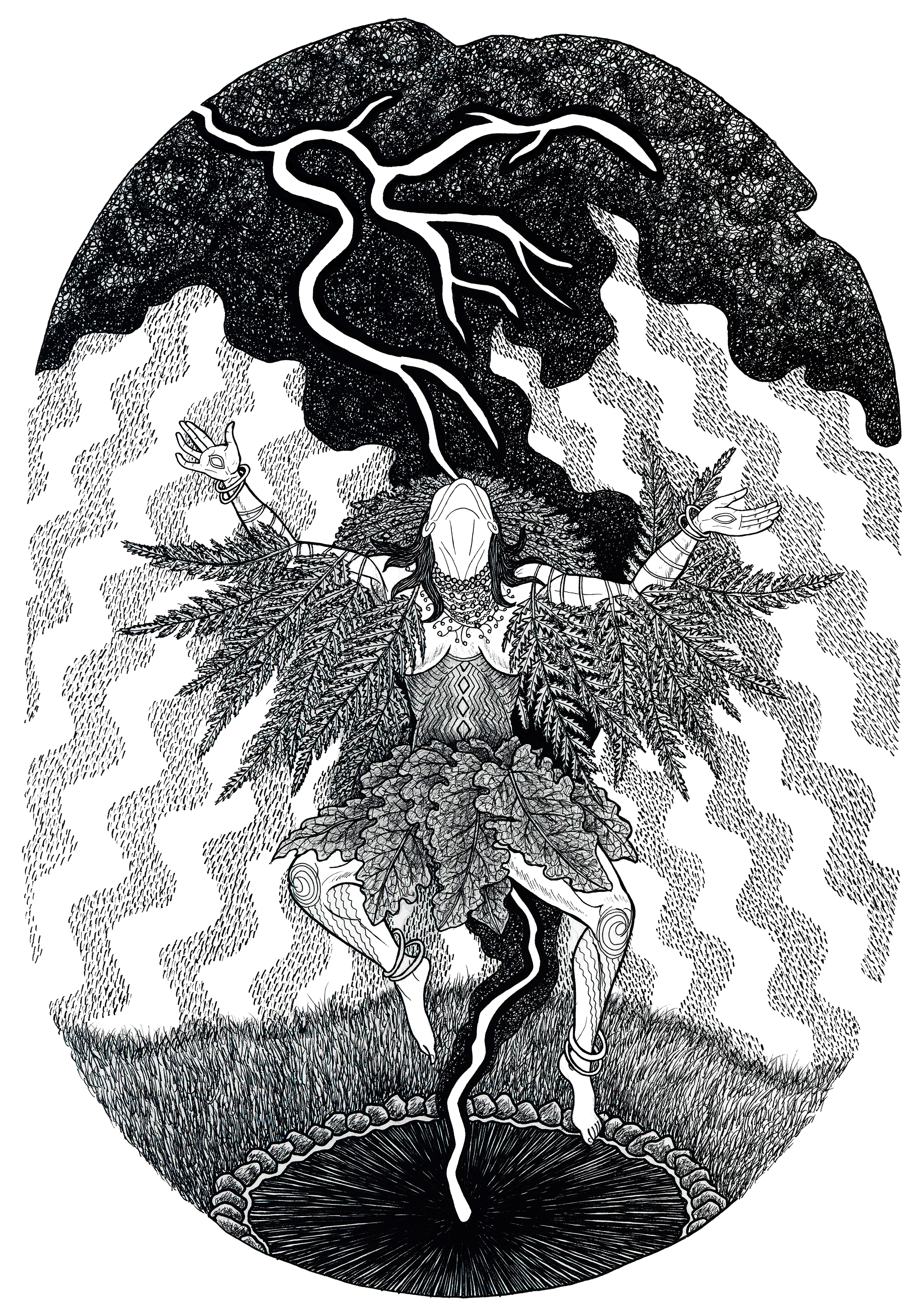 Perperuna's Dance by Marek Hapon